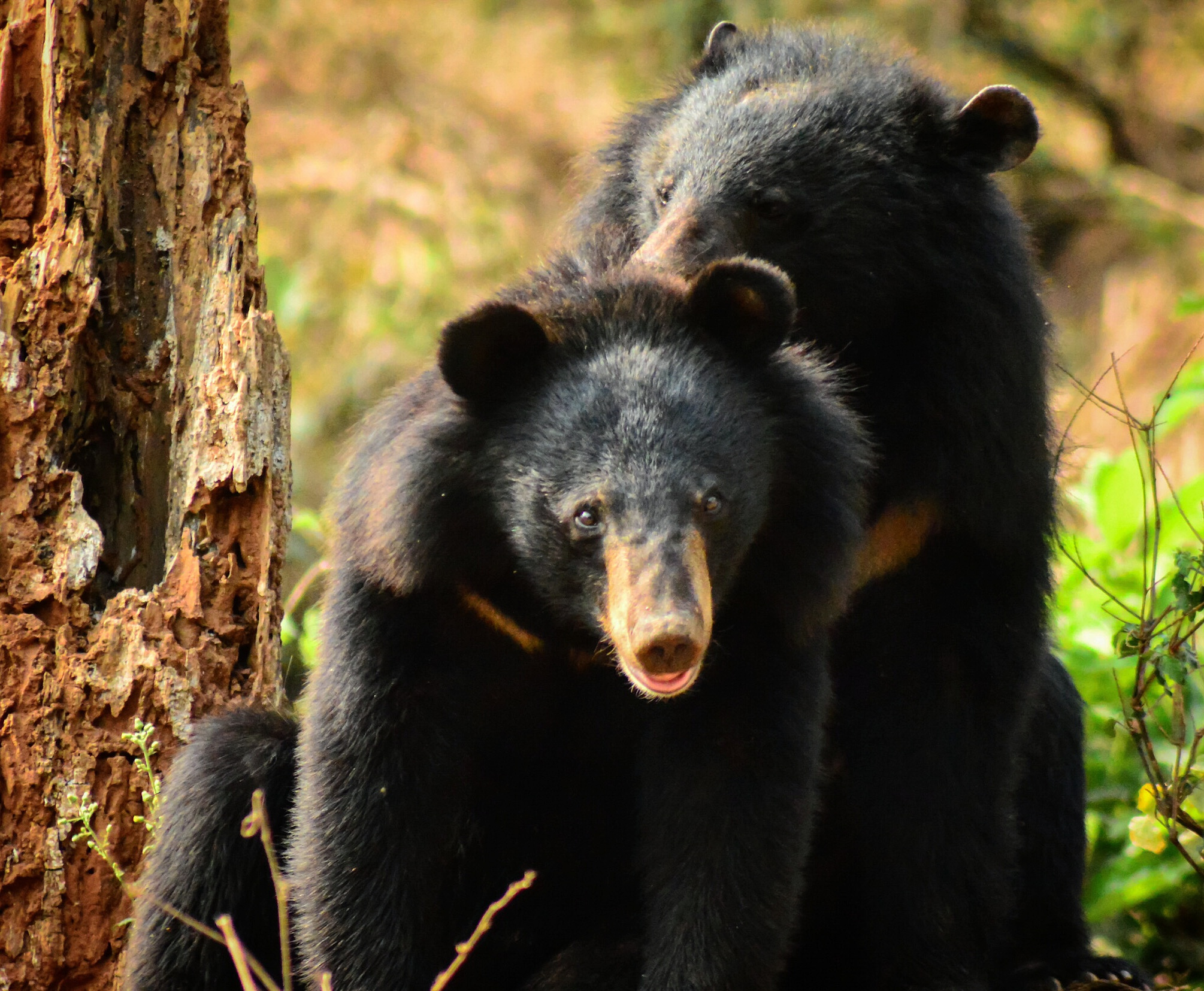 This picture is of the Himalaya Black Bear in which the both male and female bear are mating with each other.